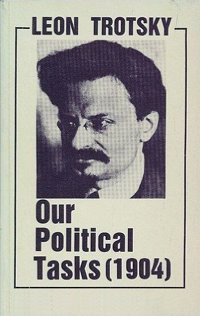 Trotsky - Our Political Tasks (1904)